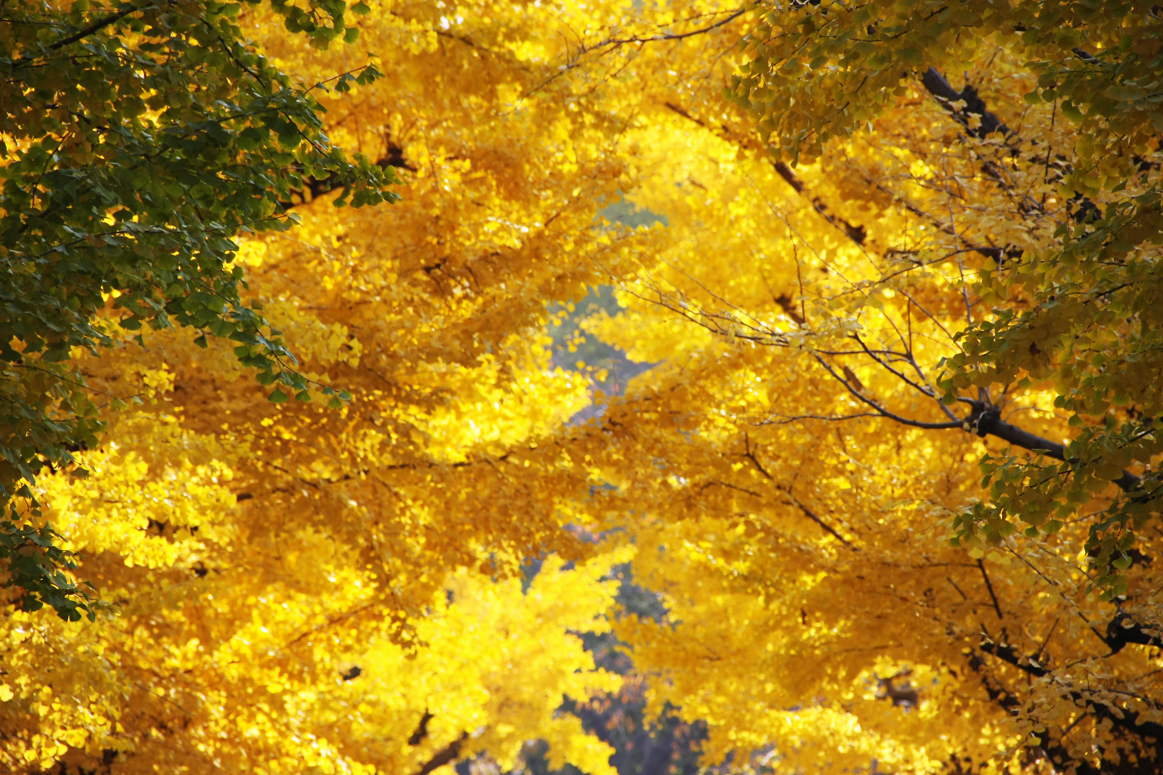 The following is the author's description of the photograph quoted directly from the photograph's Flickr page."Yokoami, Tokyo JapanSee where this picture was taken. [?] "